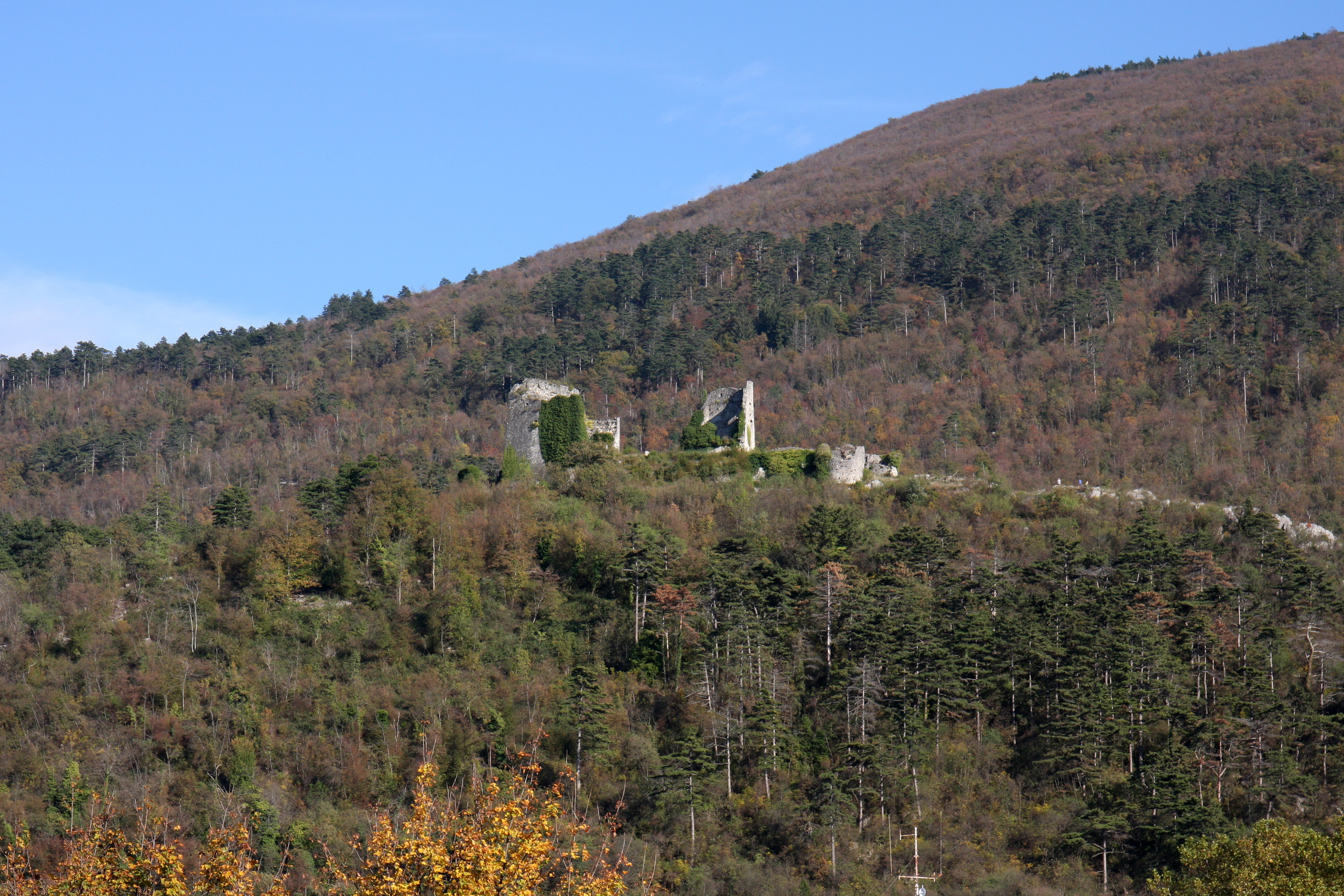 Ruins of Vipava Castle.